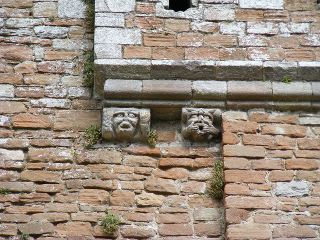 Gargoyles on wall at Brougham Castle